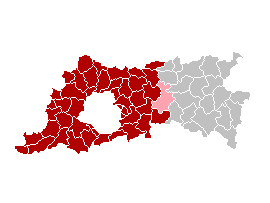 Map of Groene Gordel around Brussels, Pink: Leuven